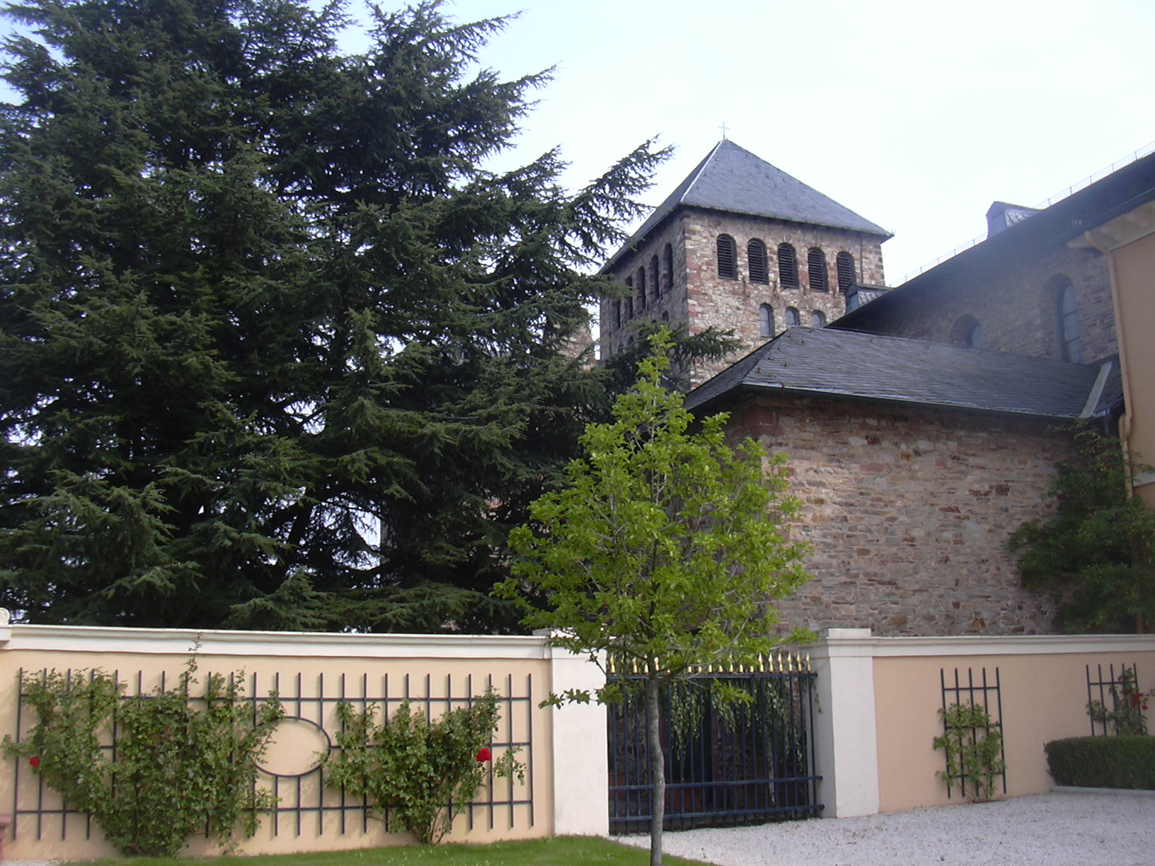 monastery church (12th century; reconstruction), Johannisberg Castle, Rhine Valley, Germany